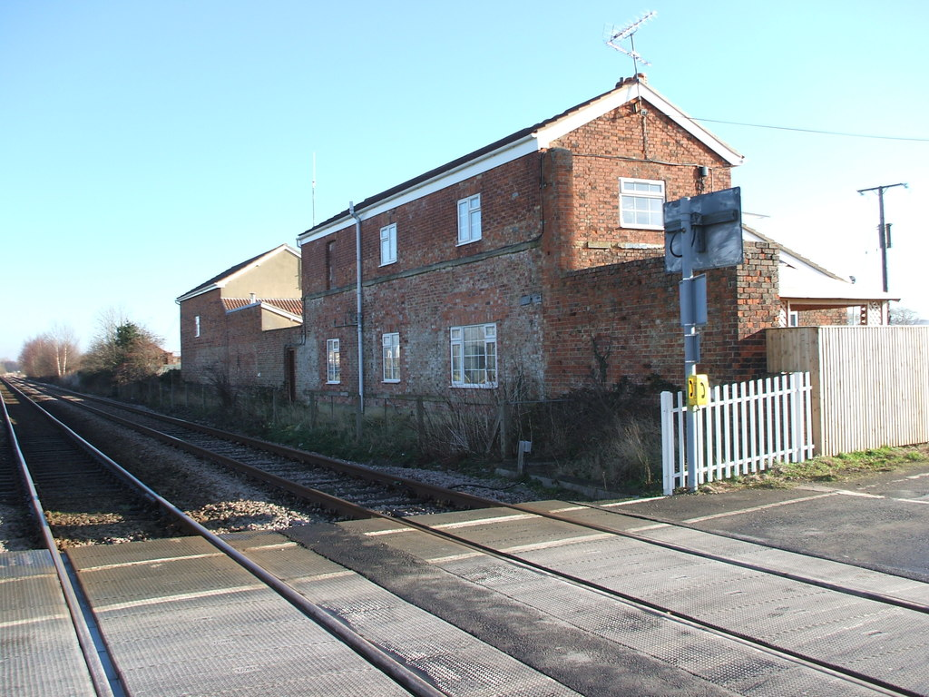 Rillington (Junction) railway station (site), YorkshireOpened in 1845 by the York & North Midland Railway, this was the junction where the line from York split. View north east along the current railway line to Scarborough. Just beyond the station, the line to Pickering and Whitby curved away to the left. At one time, this station boasted an overall roof but it closed to passengers as early as 1930.